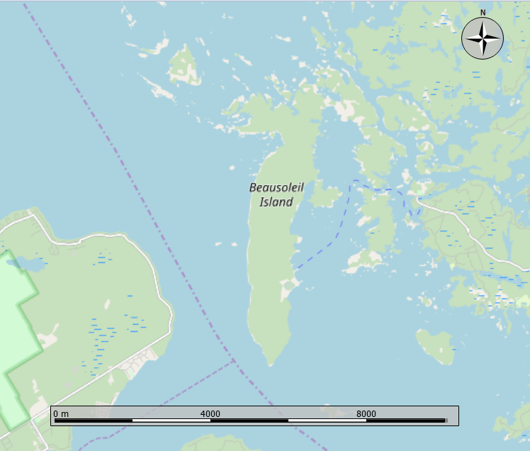 Open Street Map showing Beausoleil Island in Ontario. Crop from the Marble program.